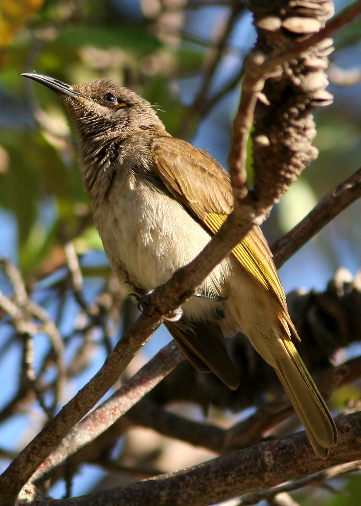 Brown Honeyeater, Lichmera indistincta